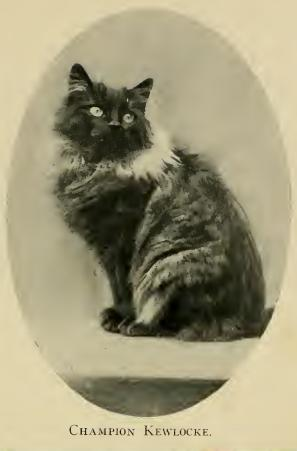 "Mrs. G. Brayton's smoke male. Sire, Champion Kew Laddie; dam, Ch. Lucy Claire. Kewlocke is winner of over sixty First and Special prizes, including best American bred cat on two oc- casions. He is one of the beautiful cats owned by Mrs. G. Brayton, 27 Leicester Street, Brighton, Mass."